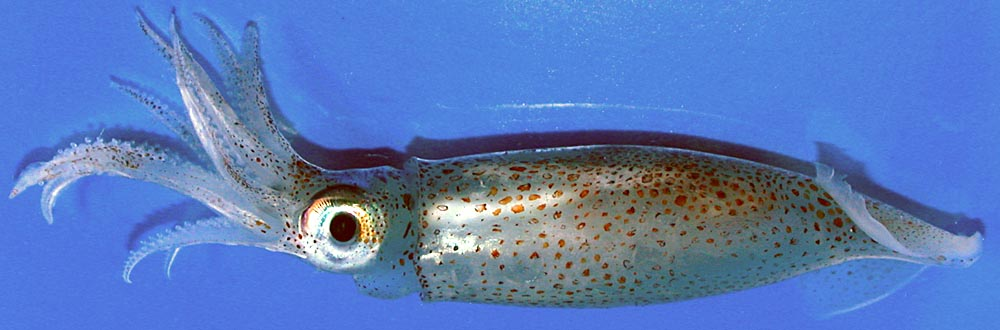 Scientific Name Todarodes sagittatus Location central North Atlantic Acknowledgements Captured aboard the R/V G. O. SARS during the MARECO cruise.